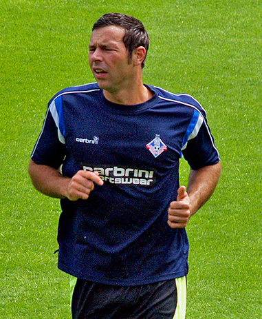 Oldham Athletic FC forward Pawel Abbott during the warm up at Gigg Lane, home of Bury Football Club prior to the Bury vs. Oldham Athletic friendly game. Saturday 18th July 2009